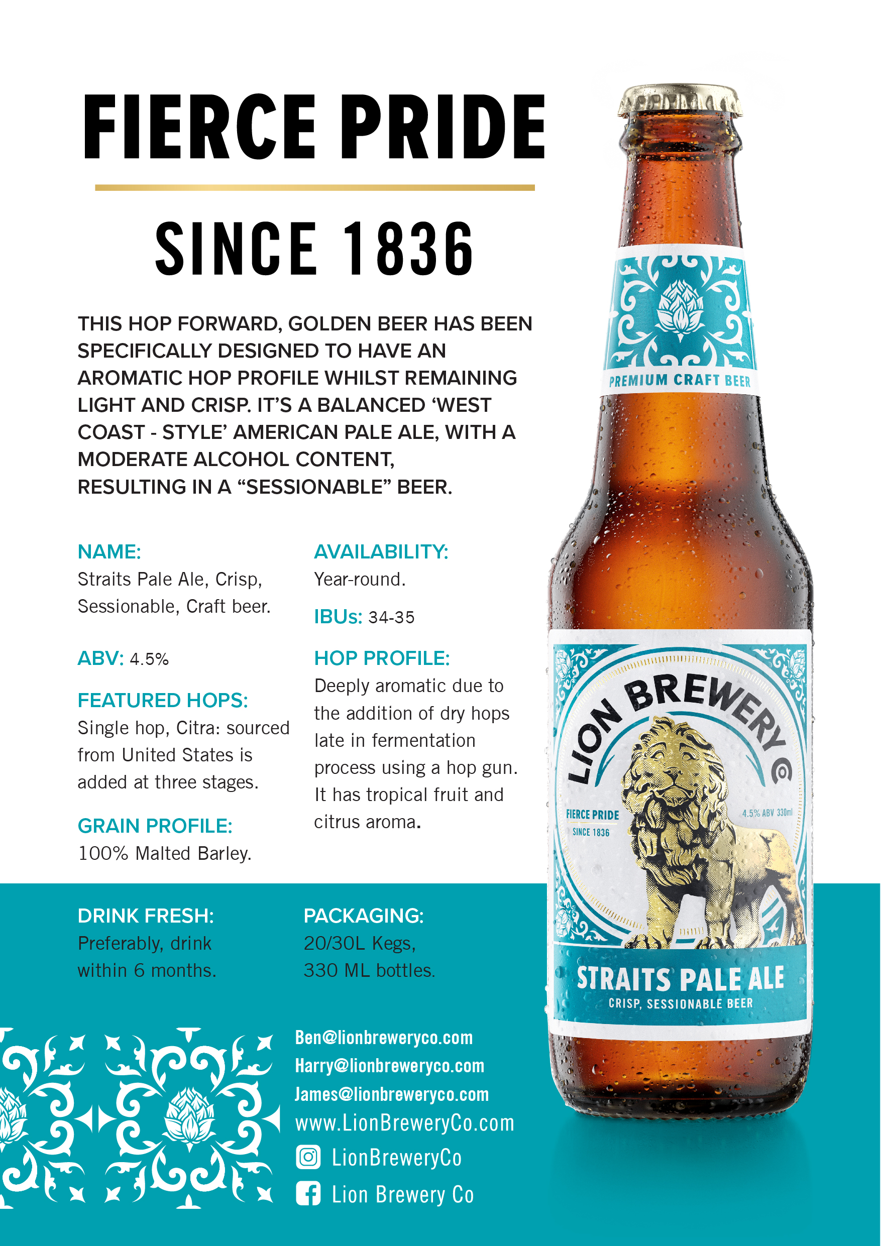 info flyer on the characteristics of the beer straits pale ale